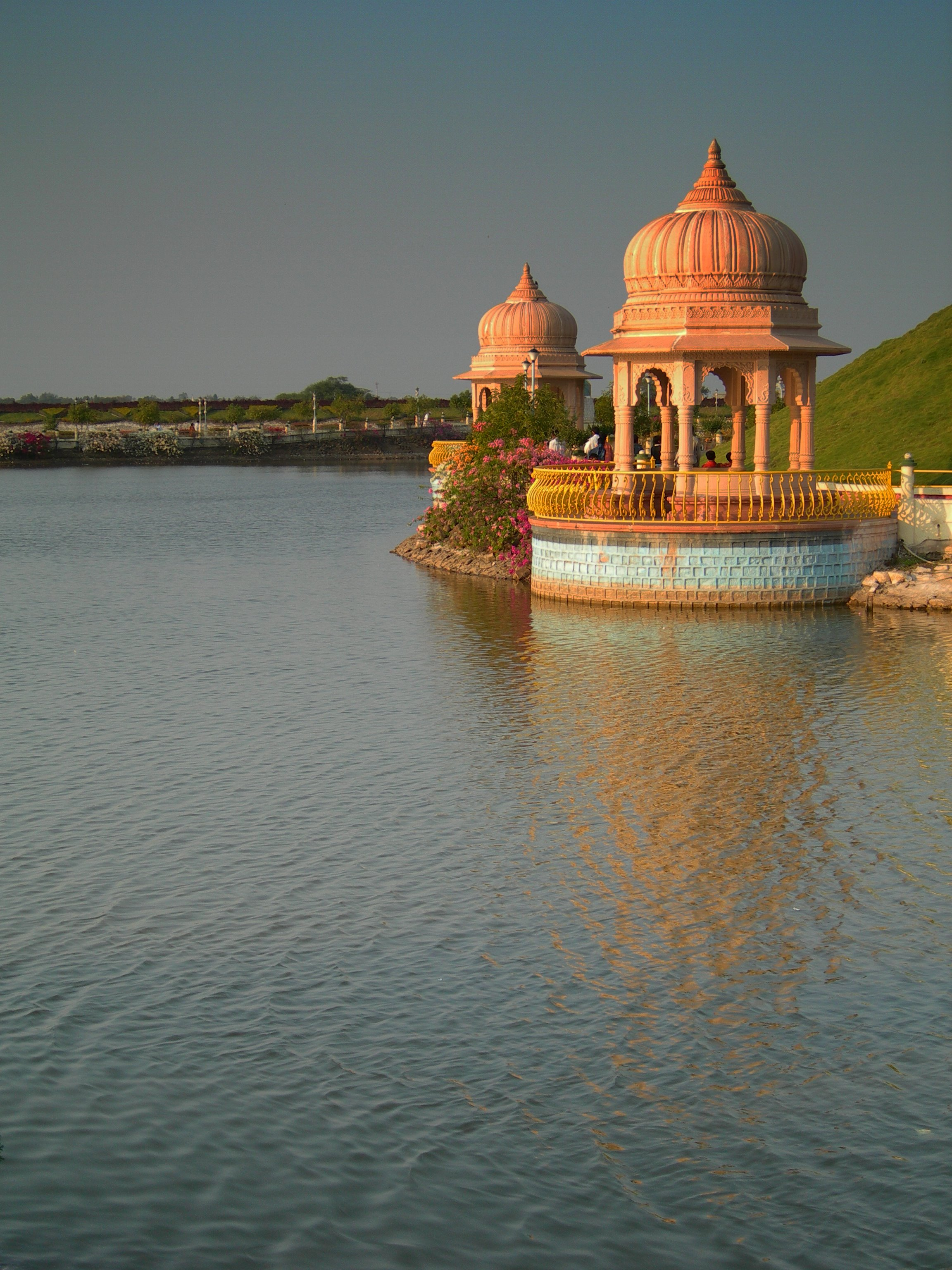 Place - Shegaon, Maharashtra, India